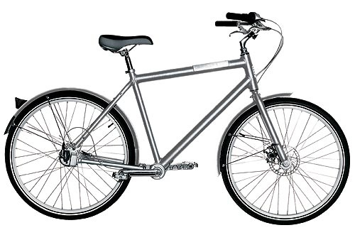 Sculpture in motion